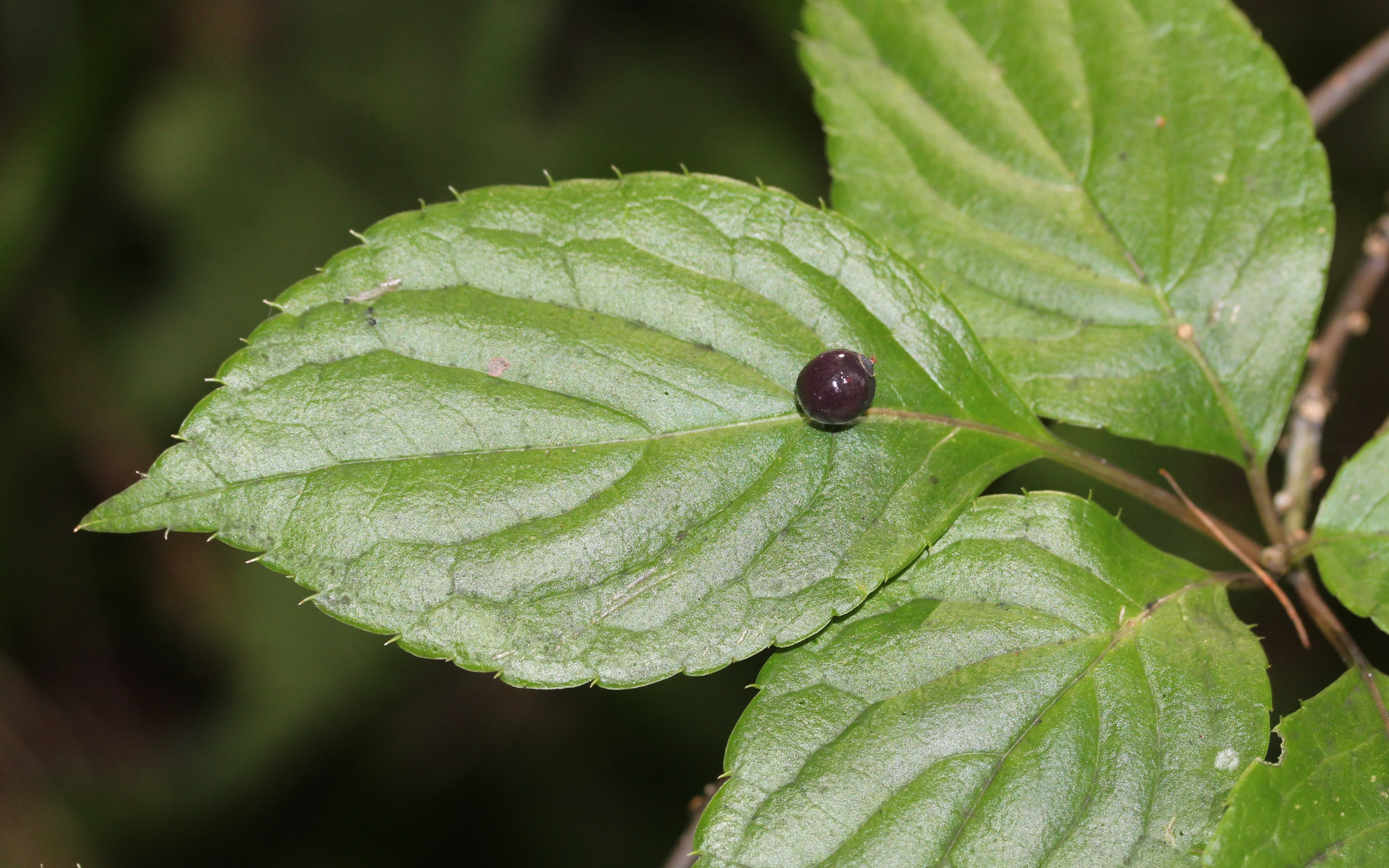 Helwingia japonica, female in Mount Kisokoma, Kiso town, Nagano prefecture, Japan.